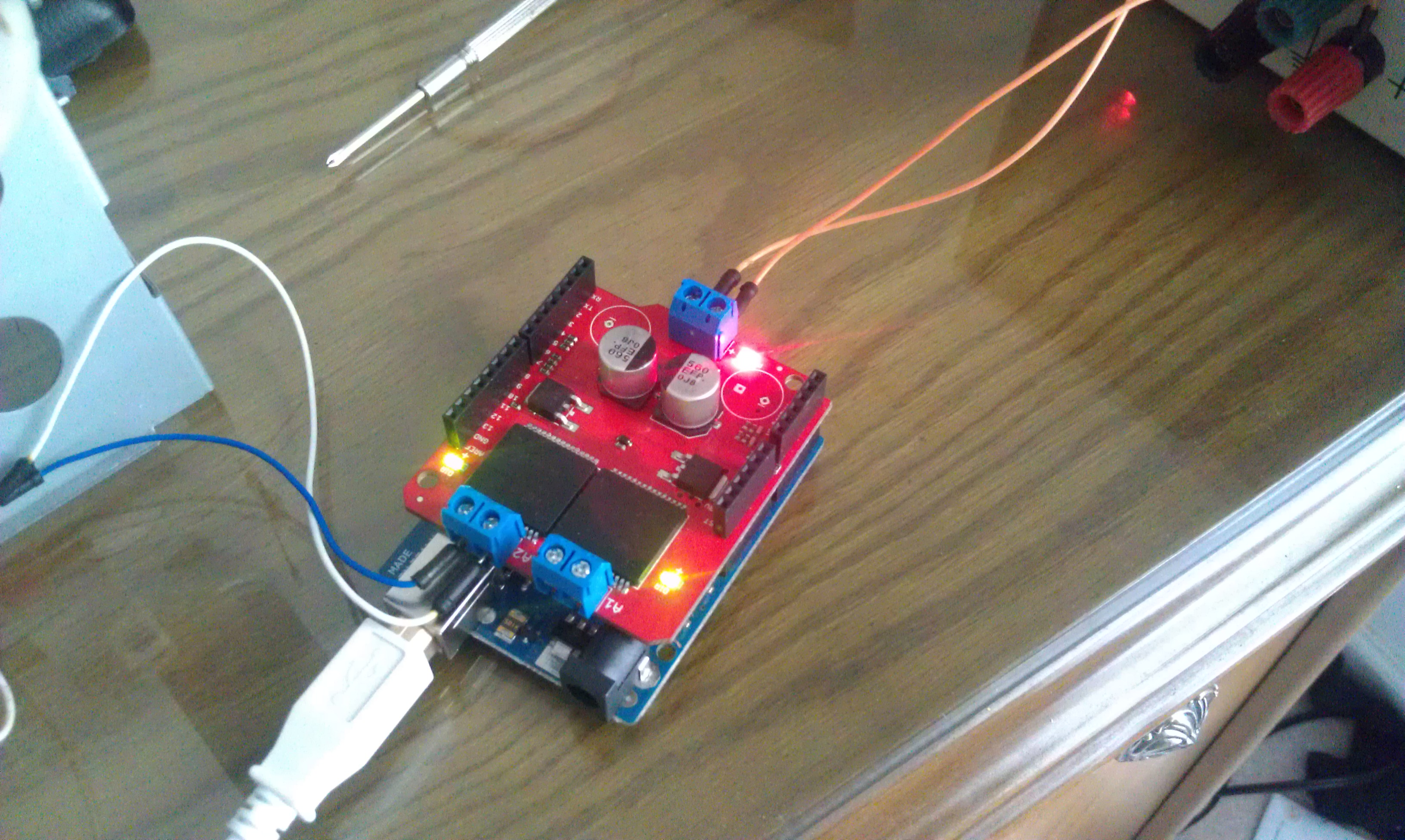 Motor shield and arduino during the process